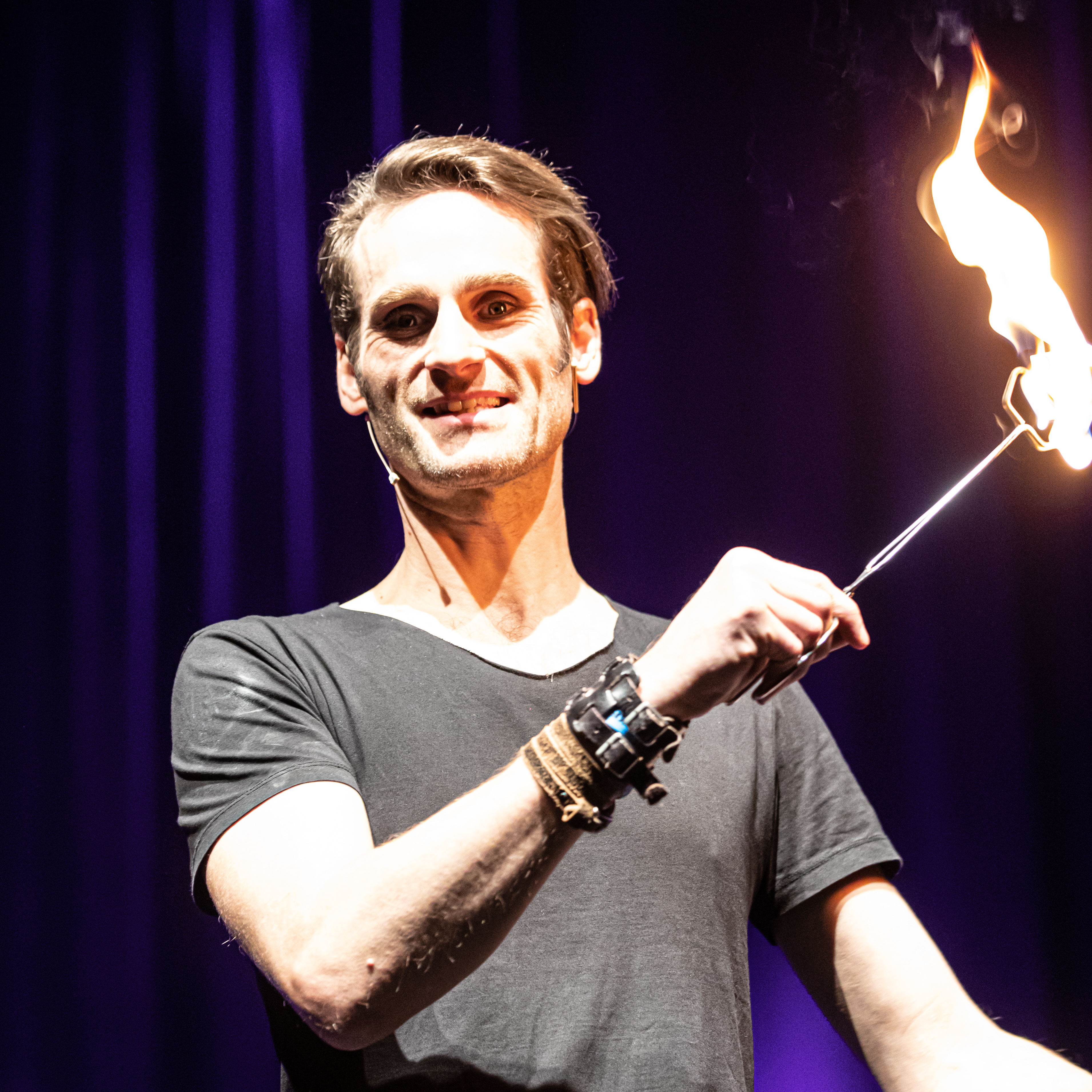 Illusionist Julius Frack at the Kulturbörse Freiburg 2019